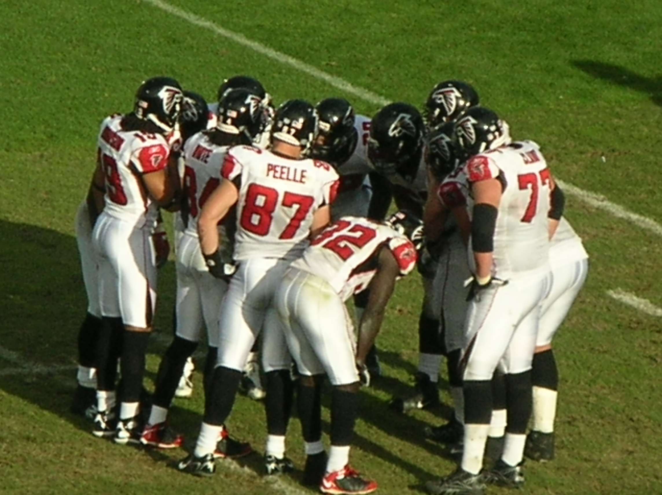 The Atlanta Falcons in a huddle during a road game against the Oakland Raiders. The Falcons won 24-0.